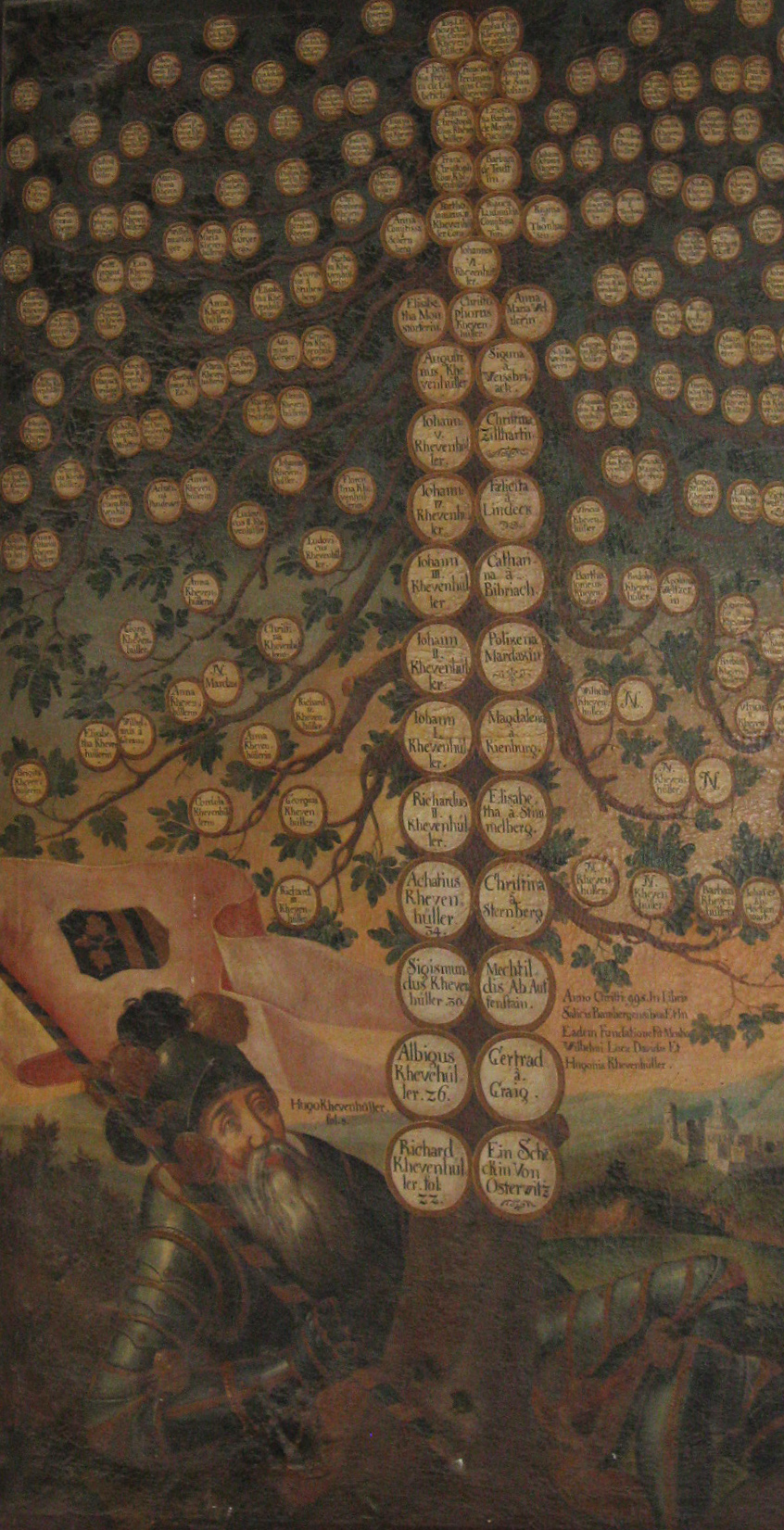 Hochosterwitz castle (slovenian: grad Ostrovica), castle in Carinthia state, Austria Familiy tree Khevenhueller